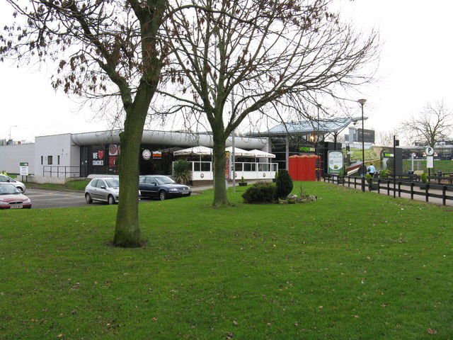 Corley Services - M6 southbound